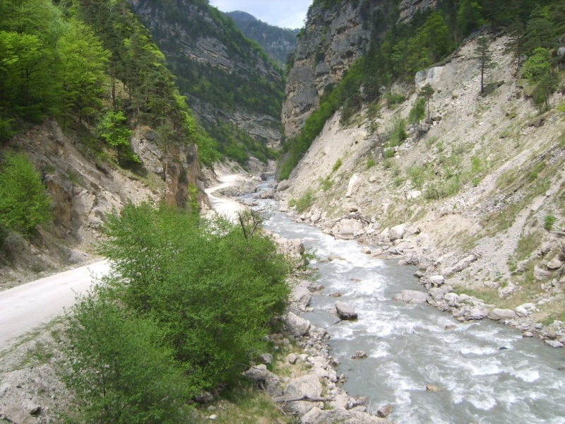 Republic of Ingushetia (Russia) - Assinskoe Valley.